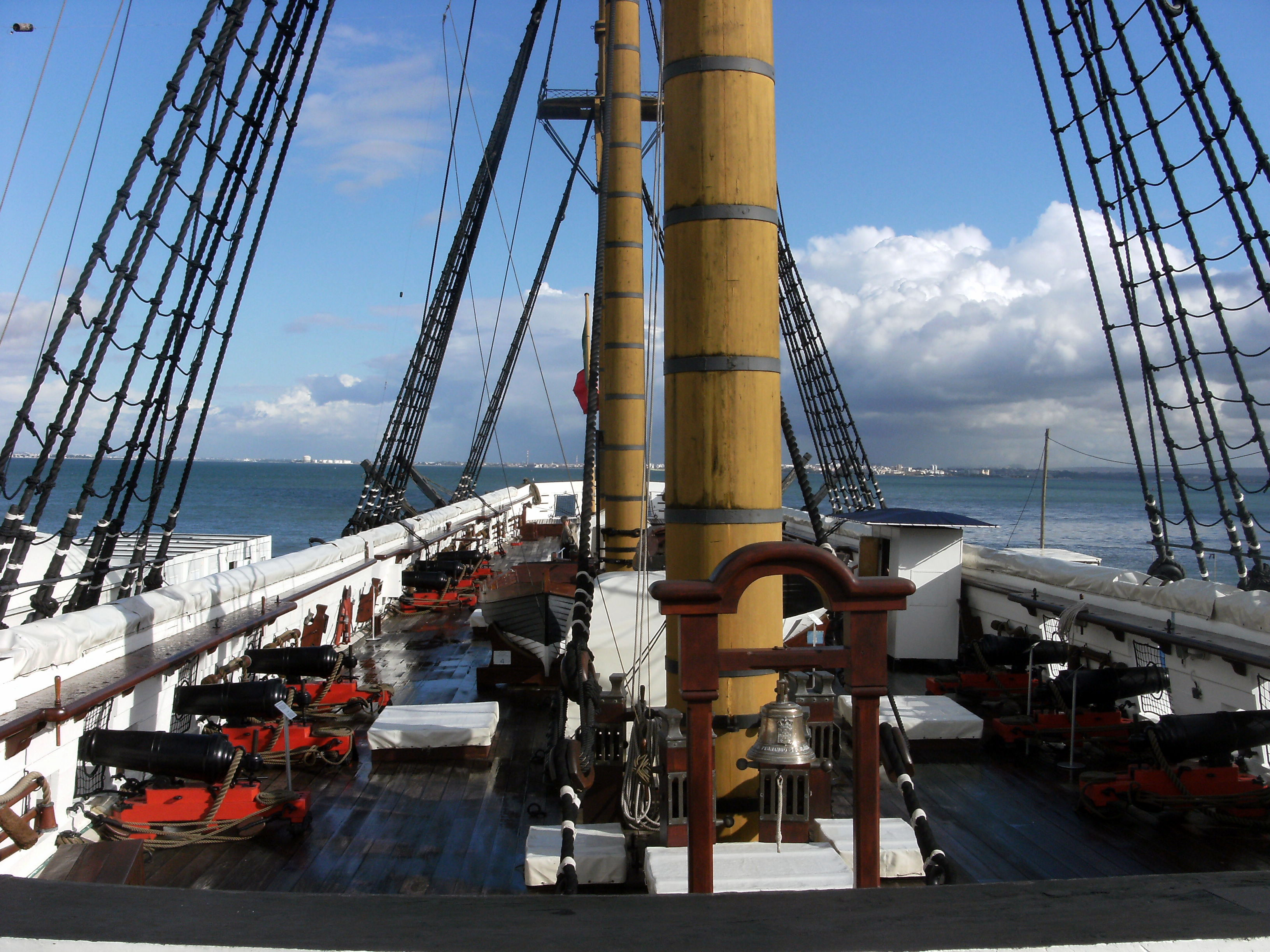 20121026: Almada & Cacilhas